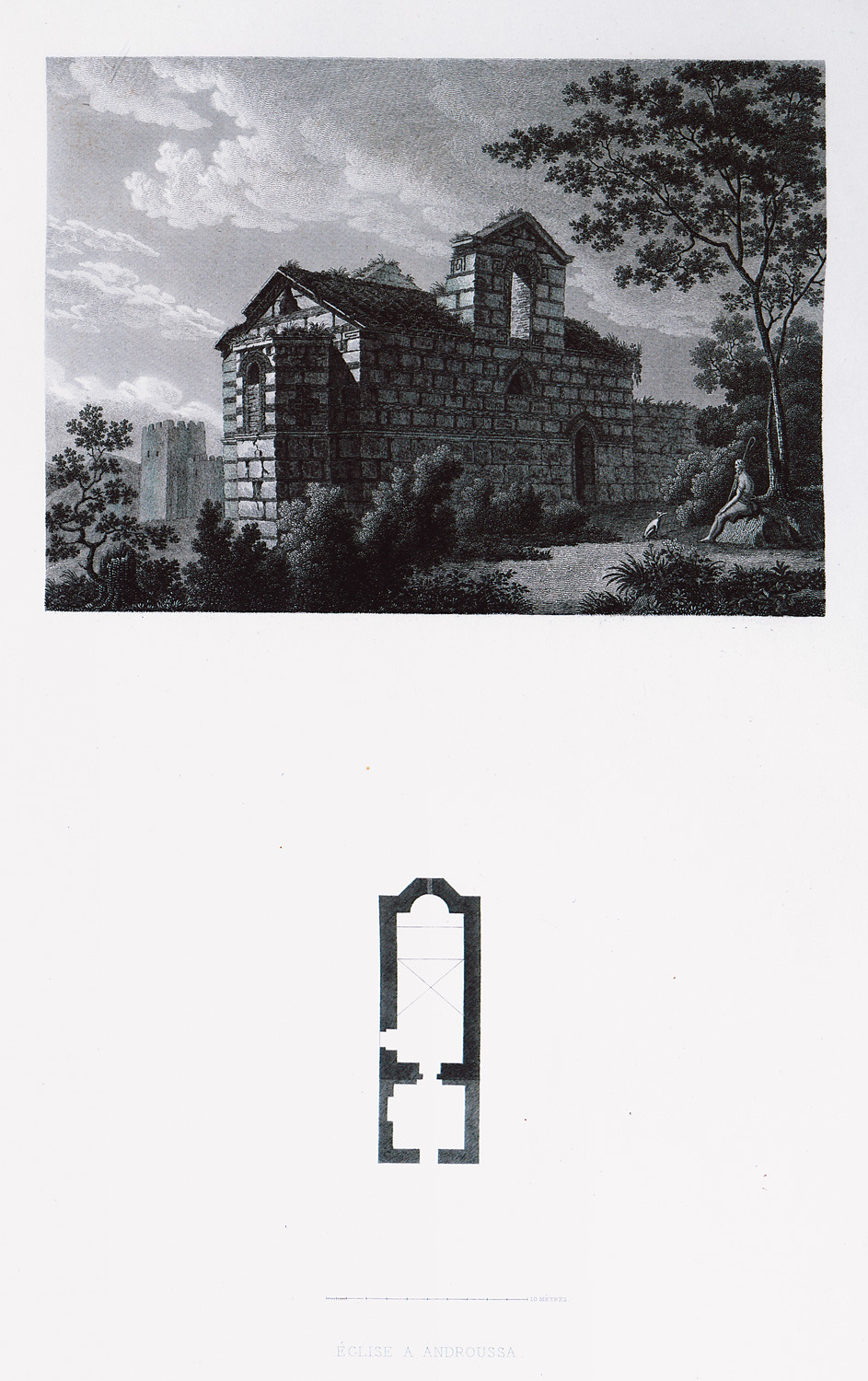 Guillaume-Abel Blouet. Expédition scientifique de Morée, Ordonnée par le Gouvernement français: Architecture, I-VI, Paris, Firmin Didot, 1831-1838.